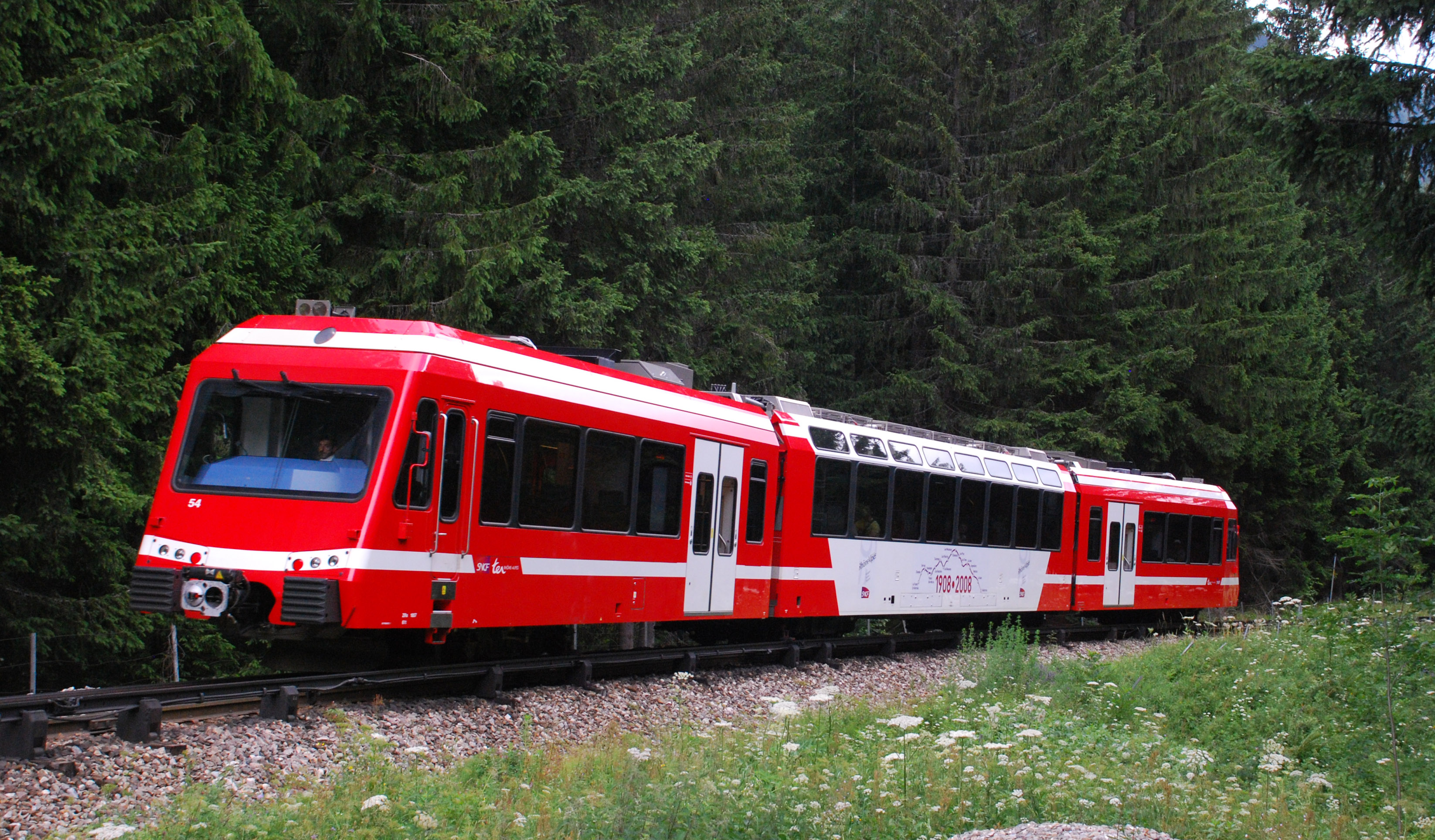 Z850 EMU in La Joux.